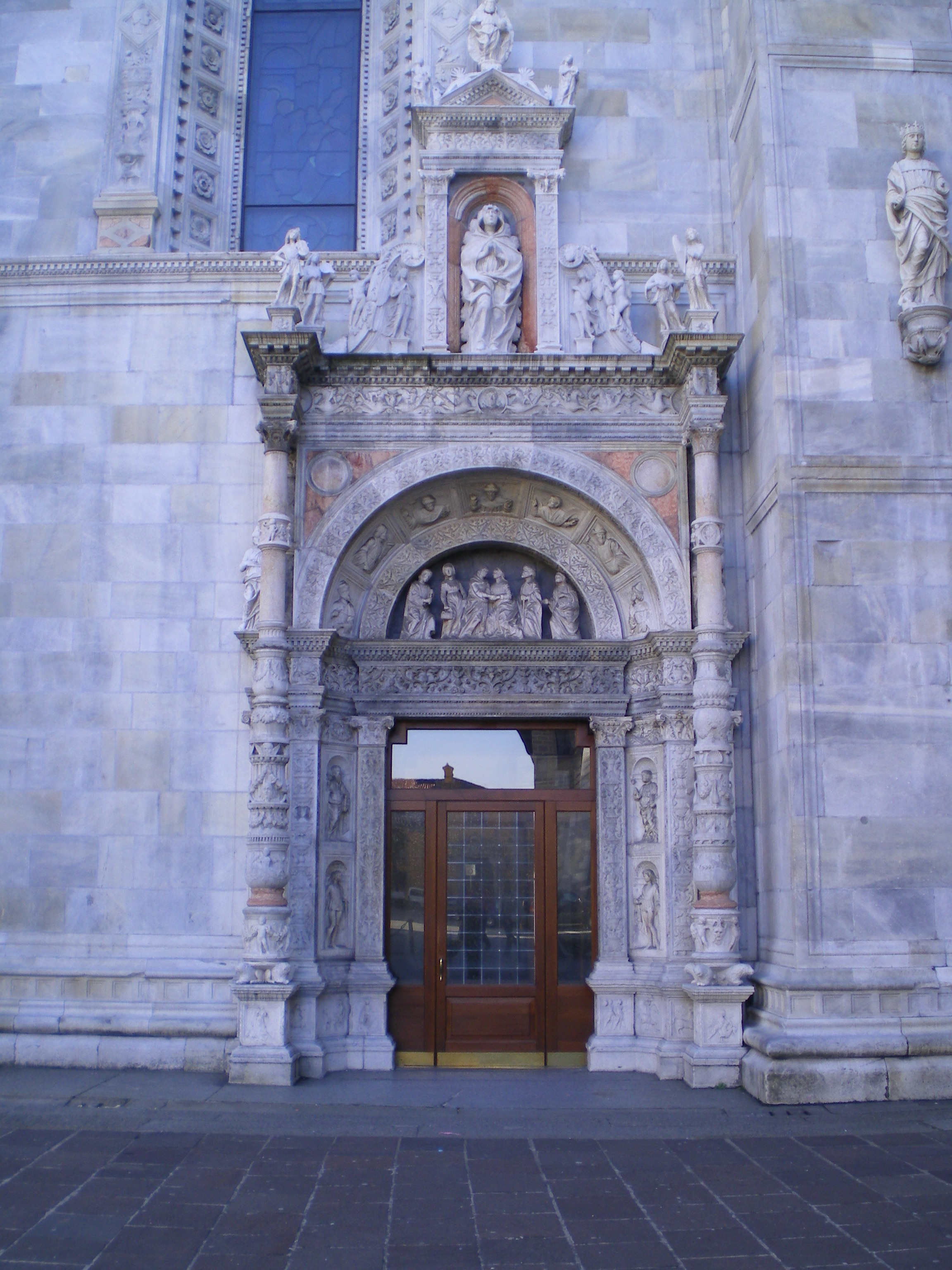 Northern door (Door of the Frog) of the Cathedral of Como